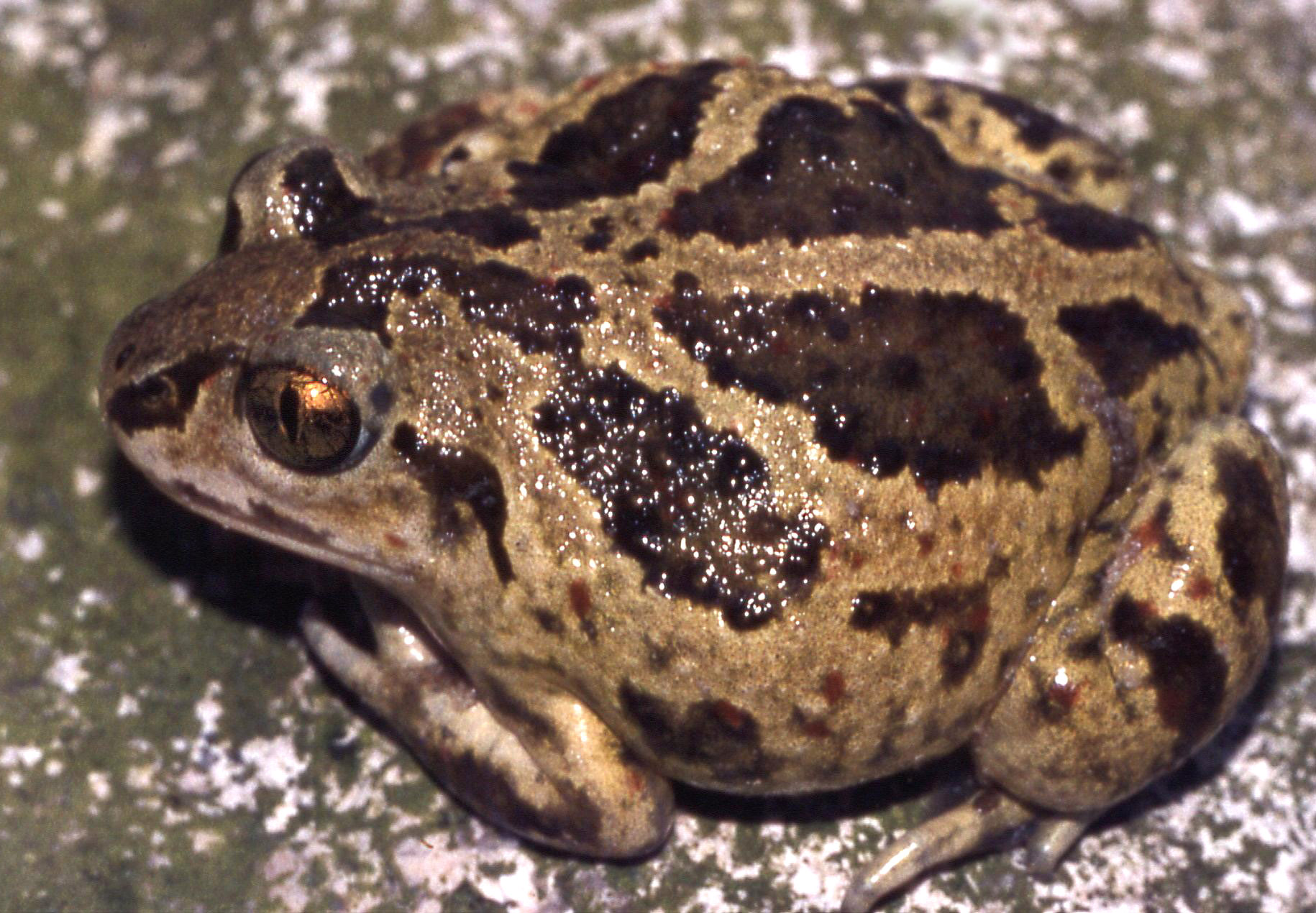 Male Common Spadefoot Toad, Pelobates fuscus.